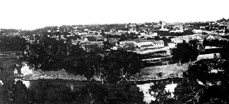 A photograph of Rome, Georgia in 1864, during the occupation by Union forces in the U.S. Civil War, according to Dave Larson's web site. Dave Larson's description also says that the river in the foreground is the Oostanaula. It is the Etowah River flowing right to left into the Oostanaula which you see coming under the bridge on the left. These two rivers are meeting at the left of the photo and forming the Coosa. The bridge shown is for a fact the exact location for the now 2nd ave bridge. The photo was taken in the fall of 1864 by Union photographer George M. Barnard as the Sherman's Union army was leaving Rome for Atlanta. This is only a portion of what is considered to be a composition photo. This being the left portion. Since the photo is over 140 years old, it is in the public domain, since the photographer must have died at least 70 years ago.